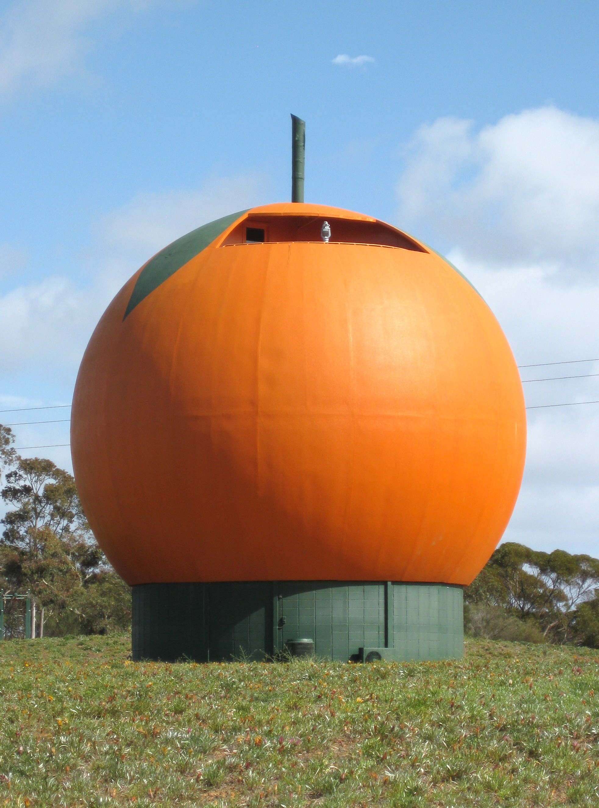 The Big Orange, in Berri, South Australia, as viewed from the Old Sturt Highway.